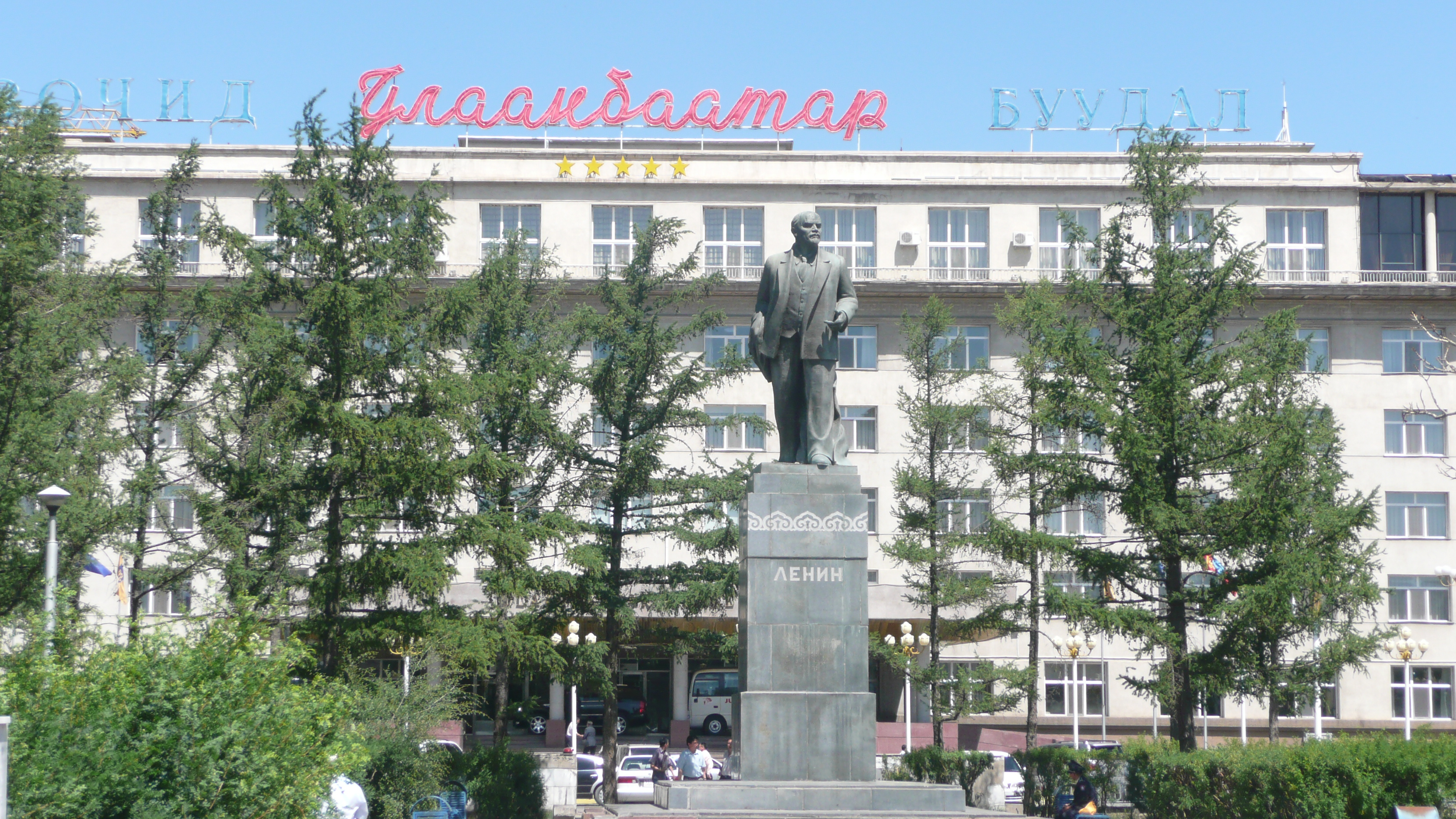 Lenin in Ulan Bator